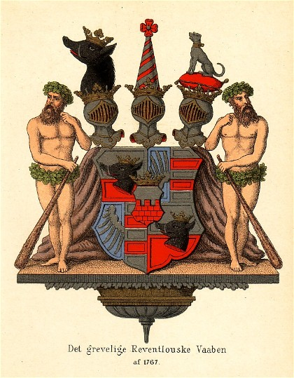 Coat of arms of the comital Reventlow family line of 1767